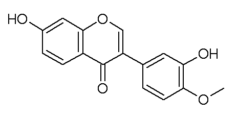 chemical structure of calycosin